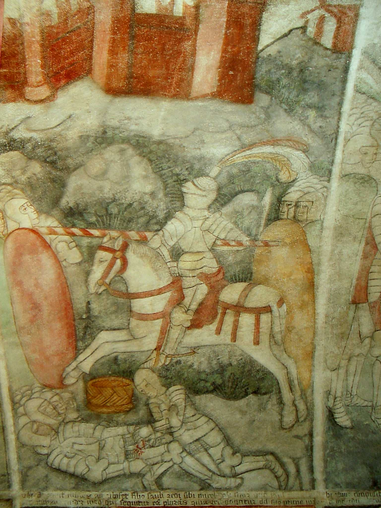 “David that, fulfilling a request from Saul, kills two hundred Philistines and takes them the foreskin”, fresco, ca 1450-60, Cantina dei Santi, Romagnano Sesia, Novara